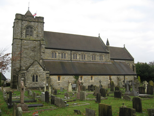 St Leonard's Church, Turners Hill, West Sussex Built in 1895 it is a village church typical of the period and is the work of the eminent Victorian architect Lacey Ridge. It has a fine interior with pews carved in English Oak and some excellent examples of stained glass by the noted Sussex artist, Charles Eamer Kempe whose work can also be seen in Canterbury Cathedral.